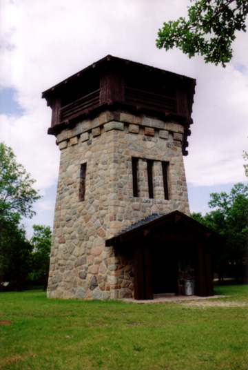 Tower at Lake Bronson State Park